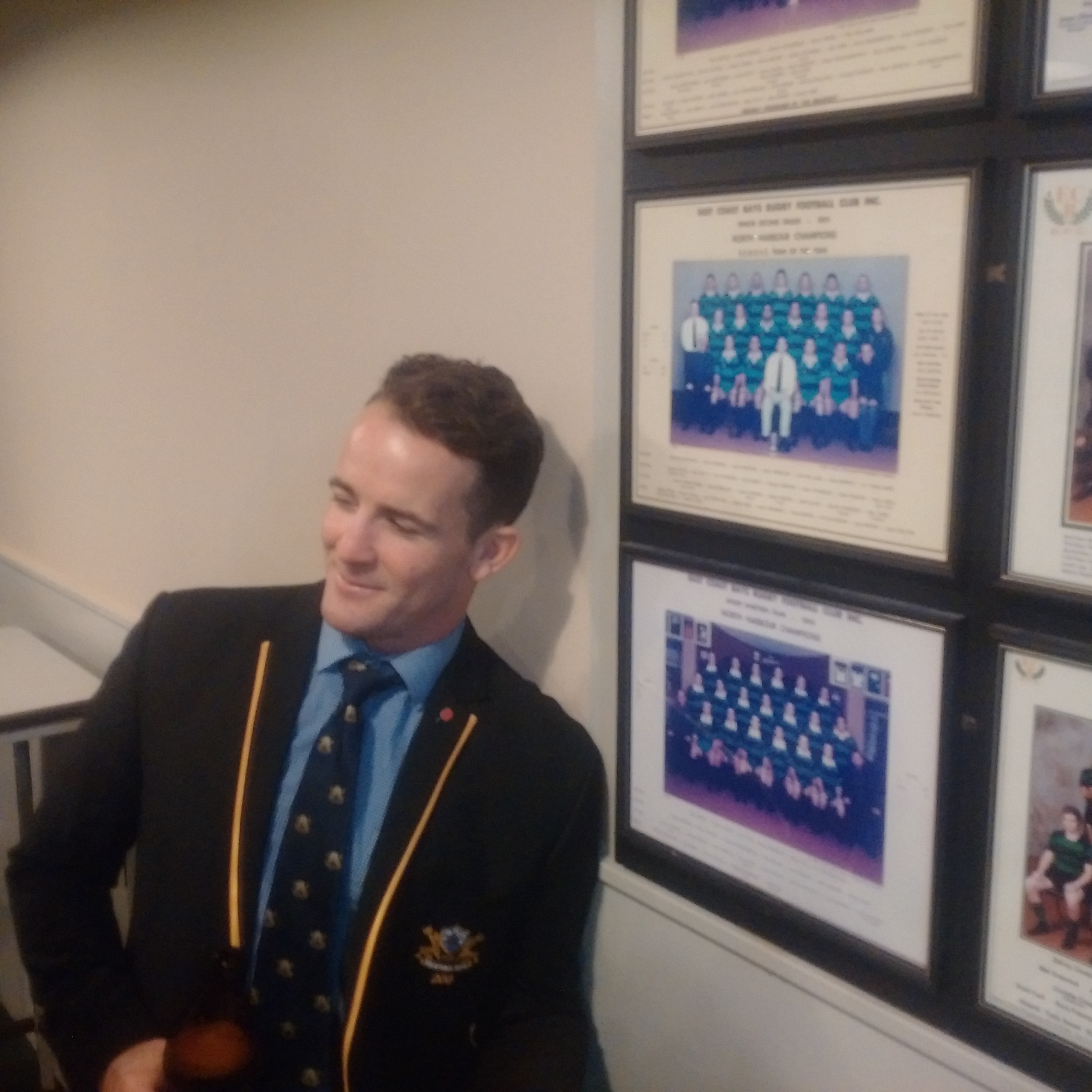 Jon Elrick celebrating Takapuna Rugby win